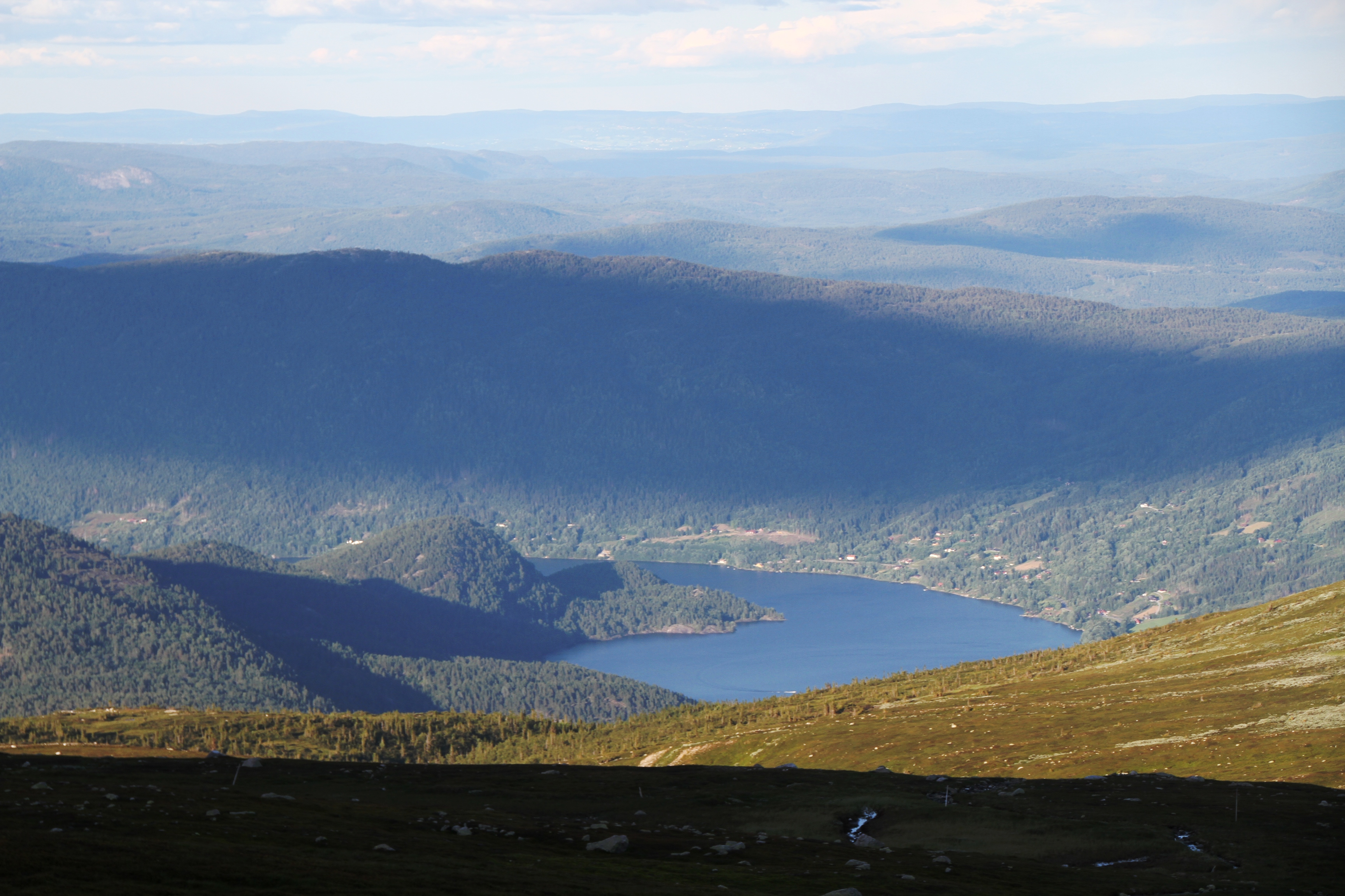 Photo seen from the Norefjell plateau, towards the lake Krøderen. Municipality of Krødsherad, Buskerud county, Norway.